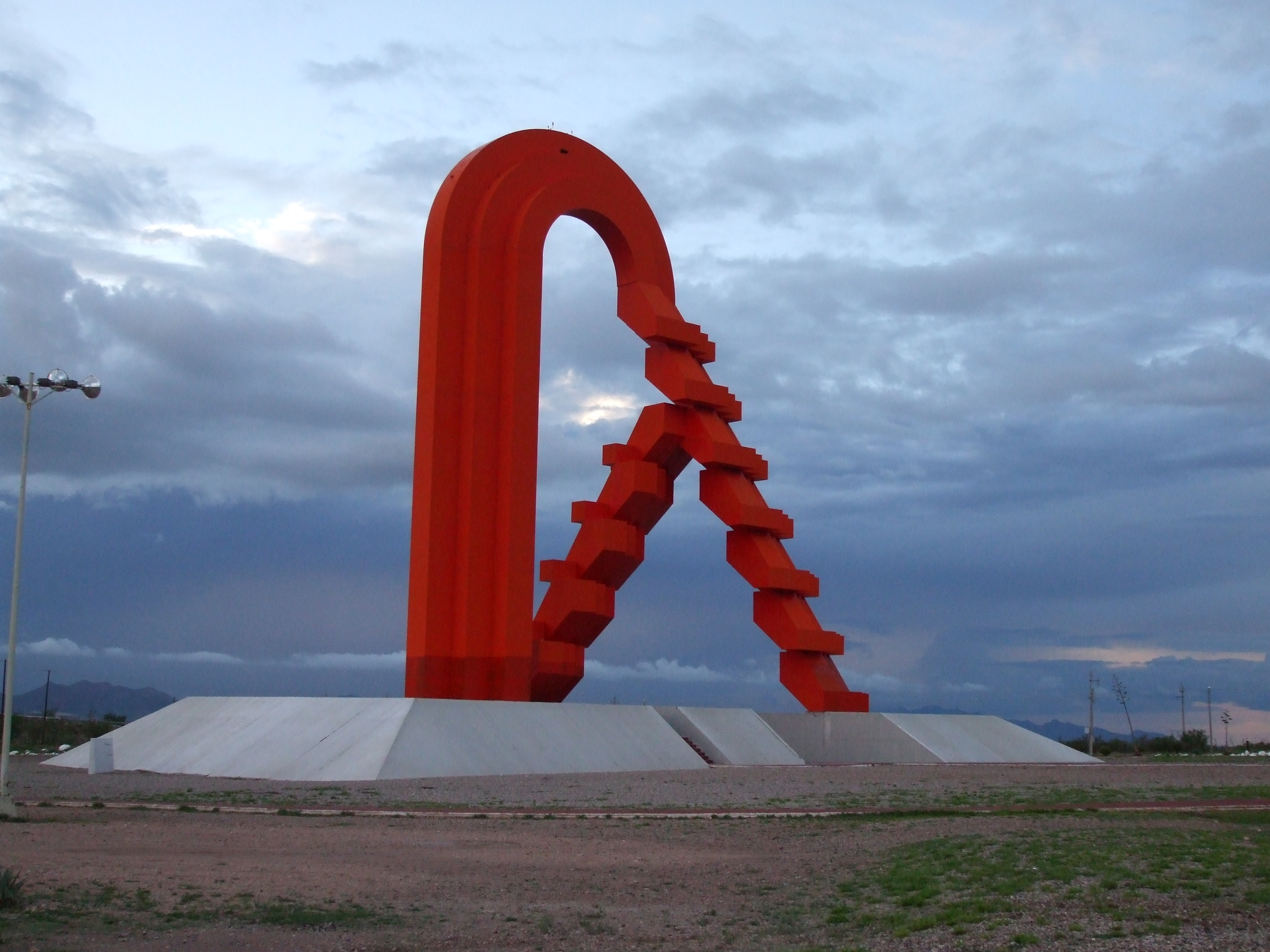 Taken by me in 2007